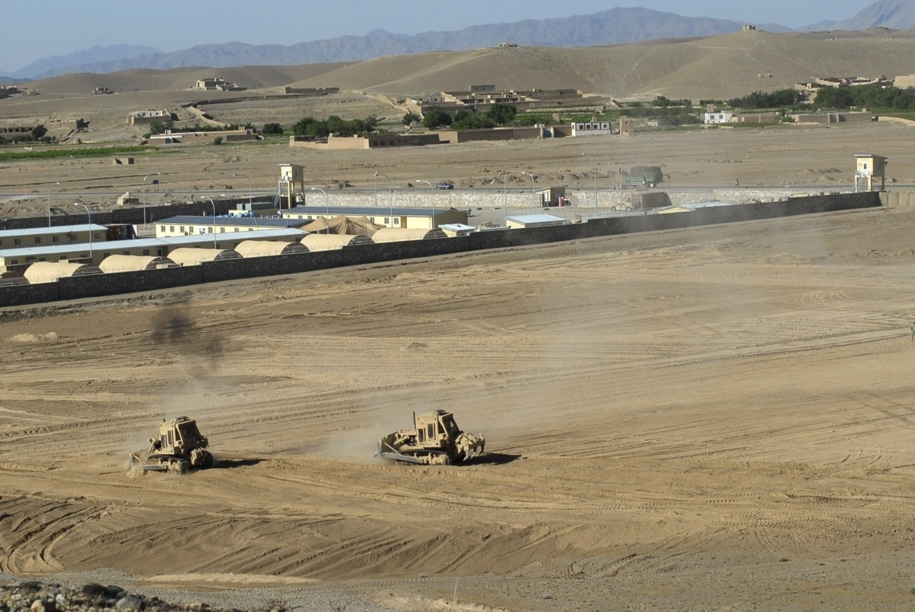 Soldiers from the 585th Engineer Company grade an area for Soldiers' living quarters at Forward Operating Base Logar, Afghanistan, May 18.